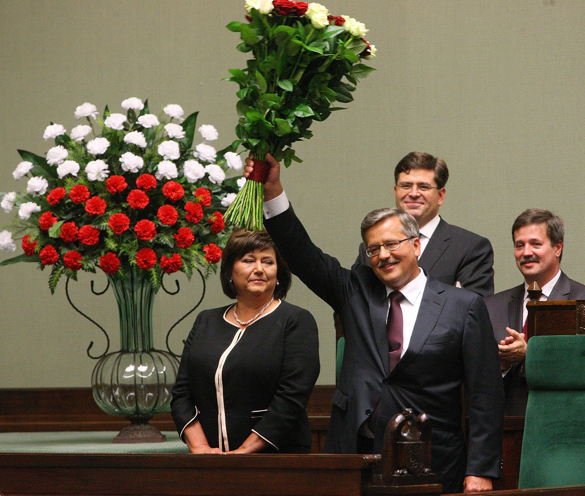 Bronisław Komorowski on the day of being sworn in as president in front of the National Assembly